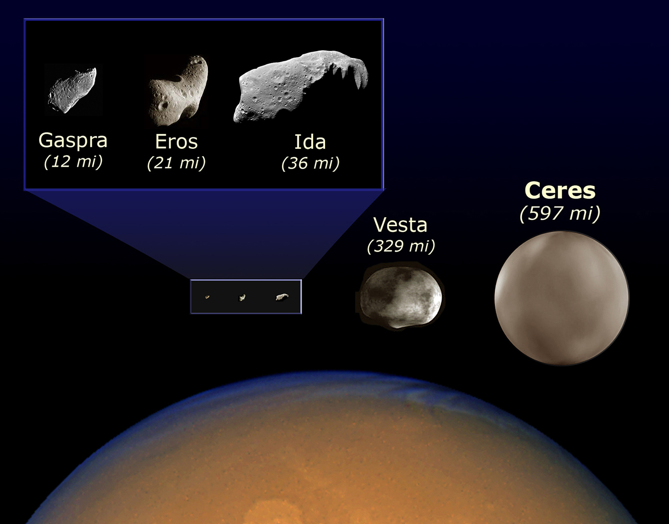 Comparison of the sizes of asteroids (1) Ceres, (4) Vesta, (243) Ida, (433) Eros, and (951) Gaspra, also Mars.